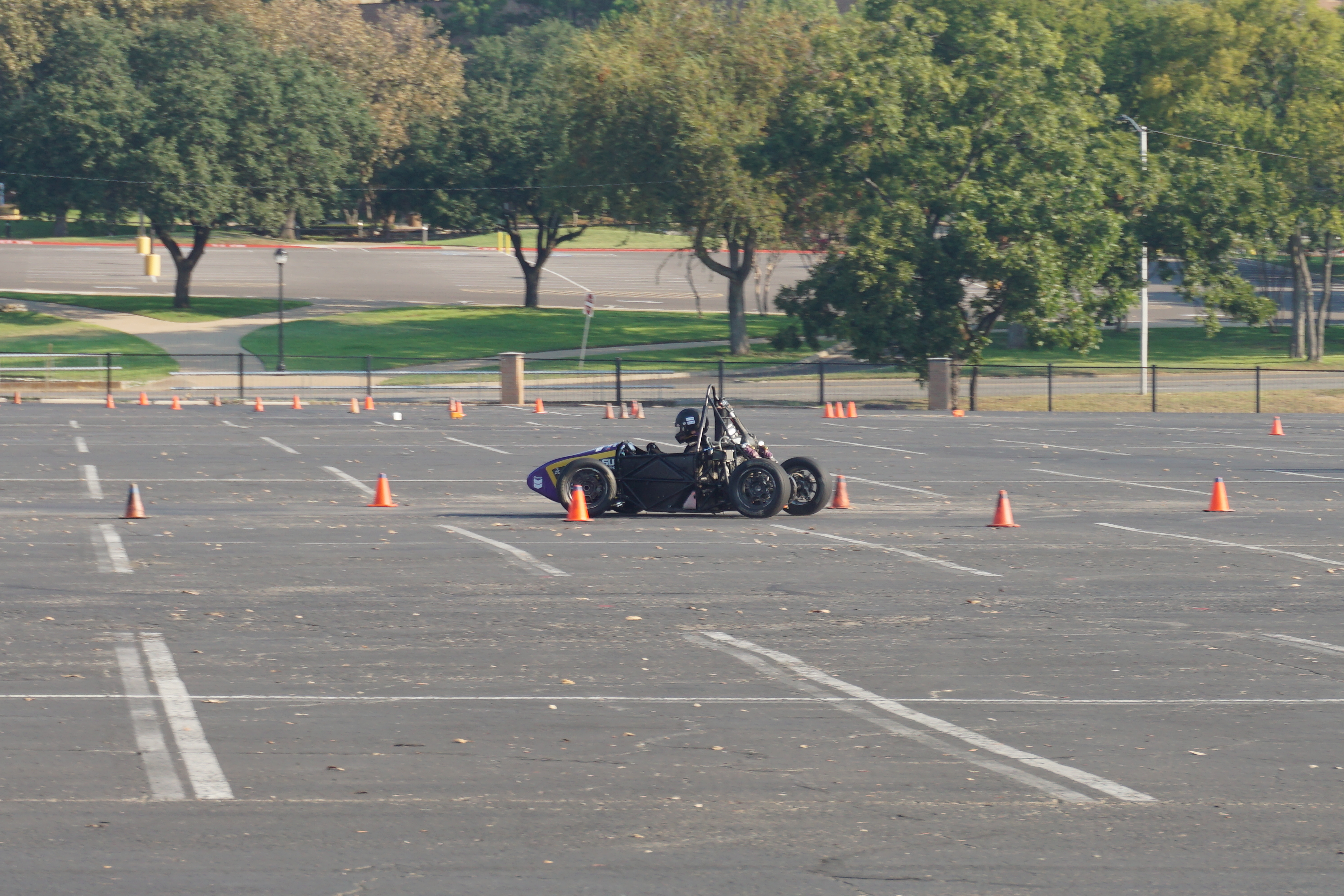 Louisiana State University car #100 during Texas Autocross Weekend 2019 on the campus of the University of Texas at Arlington in Arlington, Texas (United States).